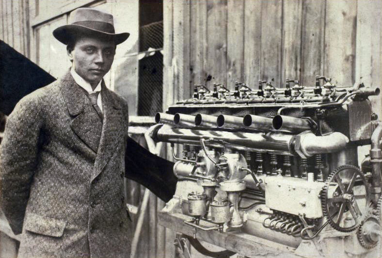 Portrait of Gustav Otto with an Argus Aircraft engine